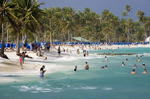 San Andres island, colombia